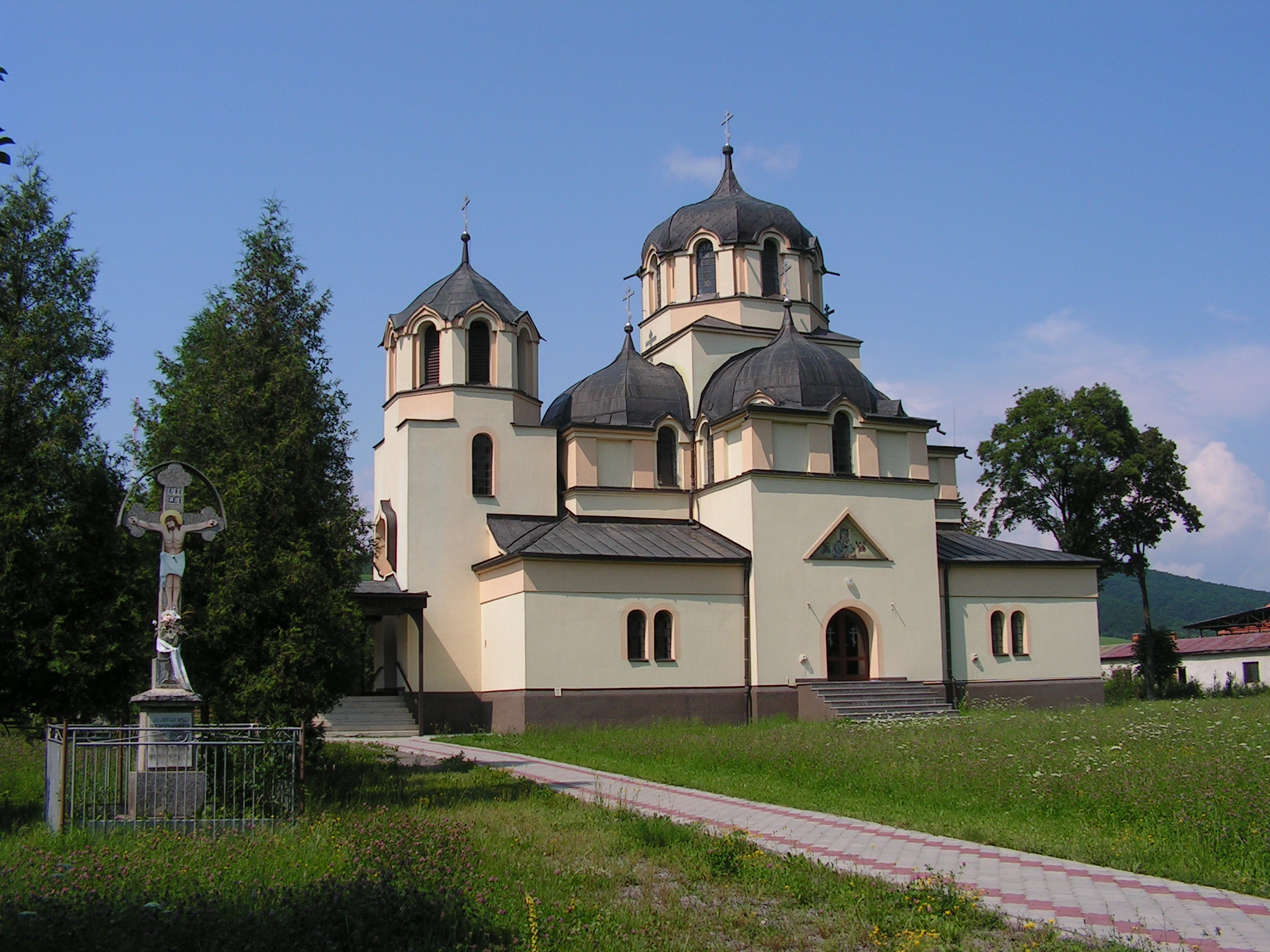 Stakčín ortodox church